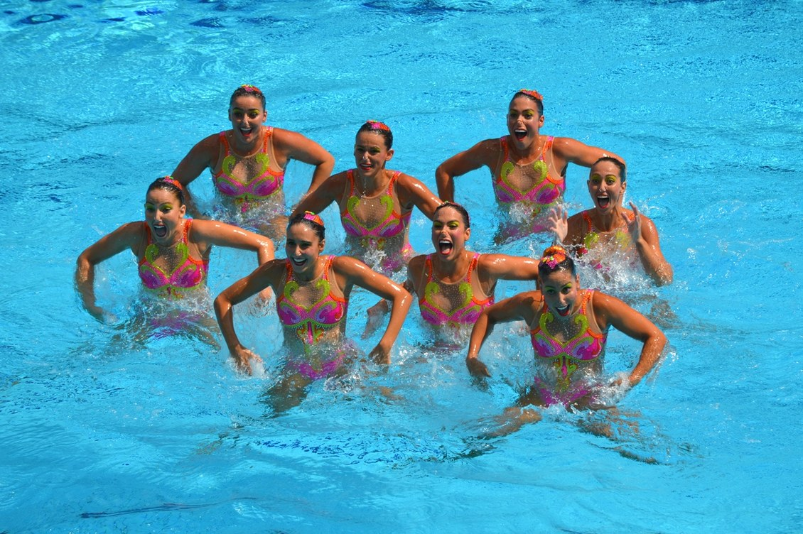 Presentation of the Brazilian team in the 2016 Olympic Games